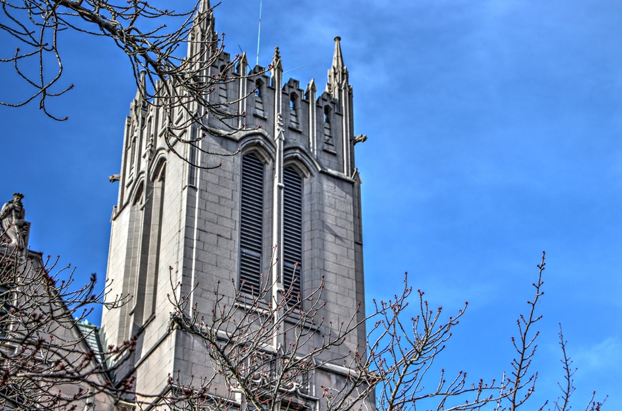 Gerberding Hall at the University of Washington pictured in February 2018